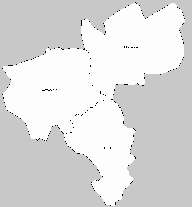 Parishes in Lessebo municipality